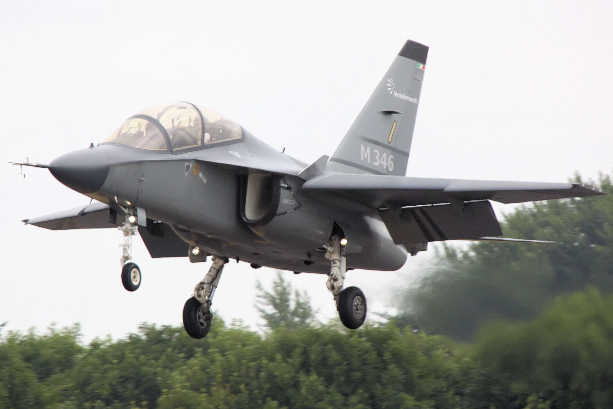 M346 - RIAT 2009